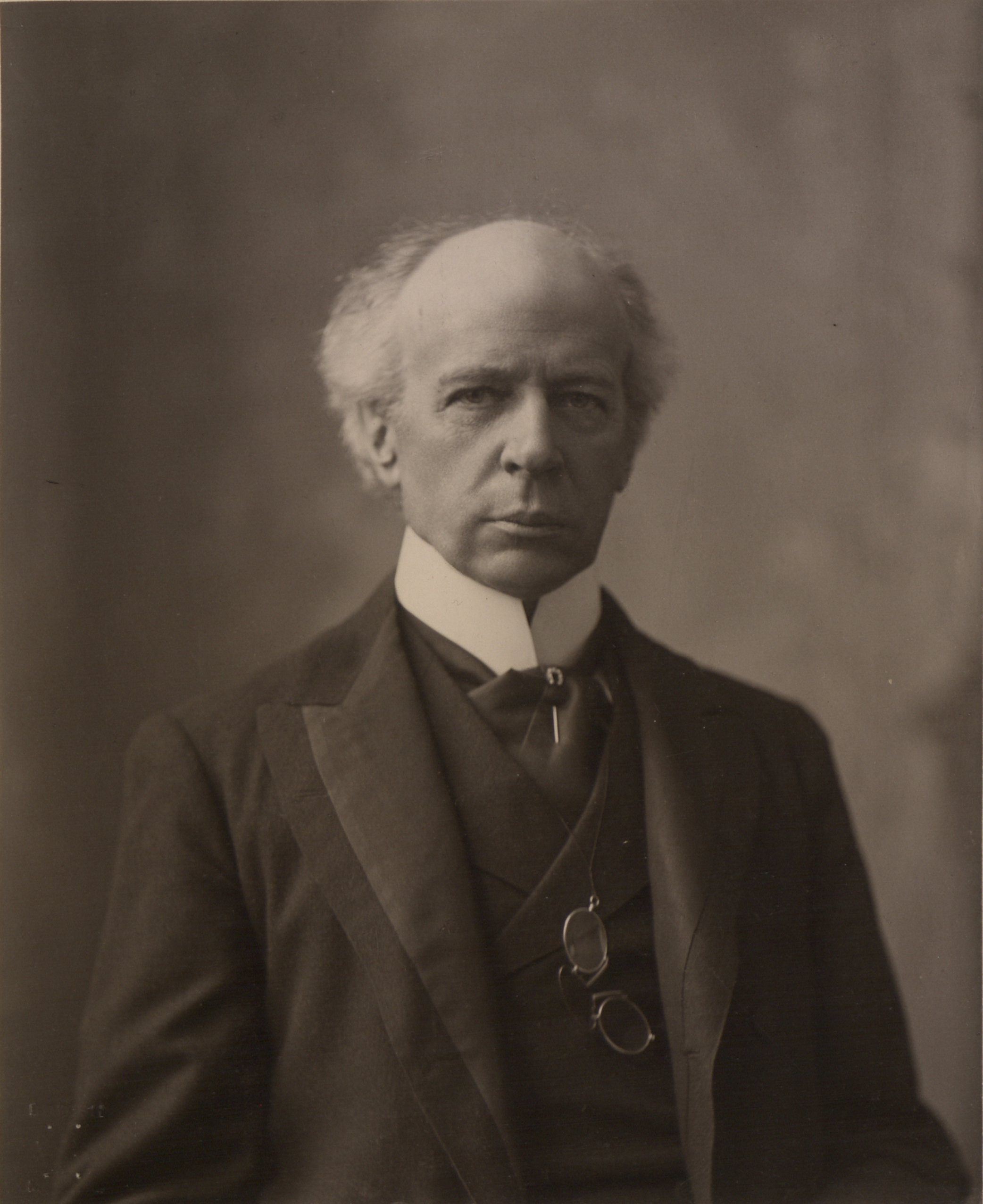 The Honourable Sir Wilfrid Laurier. Photo C.